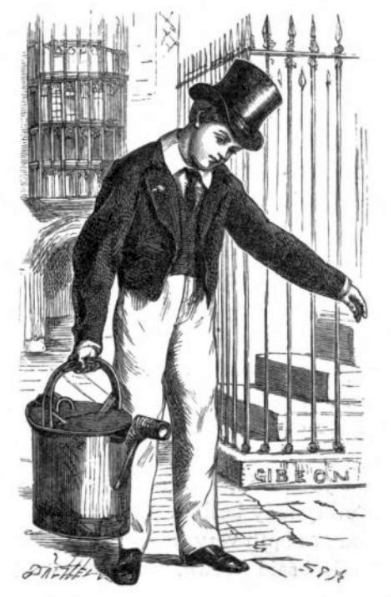 Boy in the lower school at Eton School fagging for senior boys. Illustration by Sydney Hall, from Recollections of Eton, by Charles Frederick Johnstone (Published 1870)